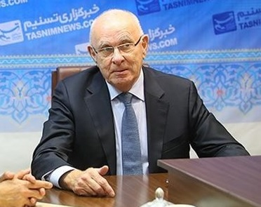 Michael van Praag in Iran in 2016